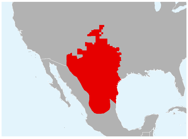 Range map for Anaxyrys debilis